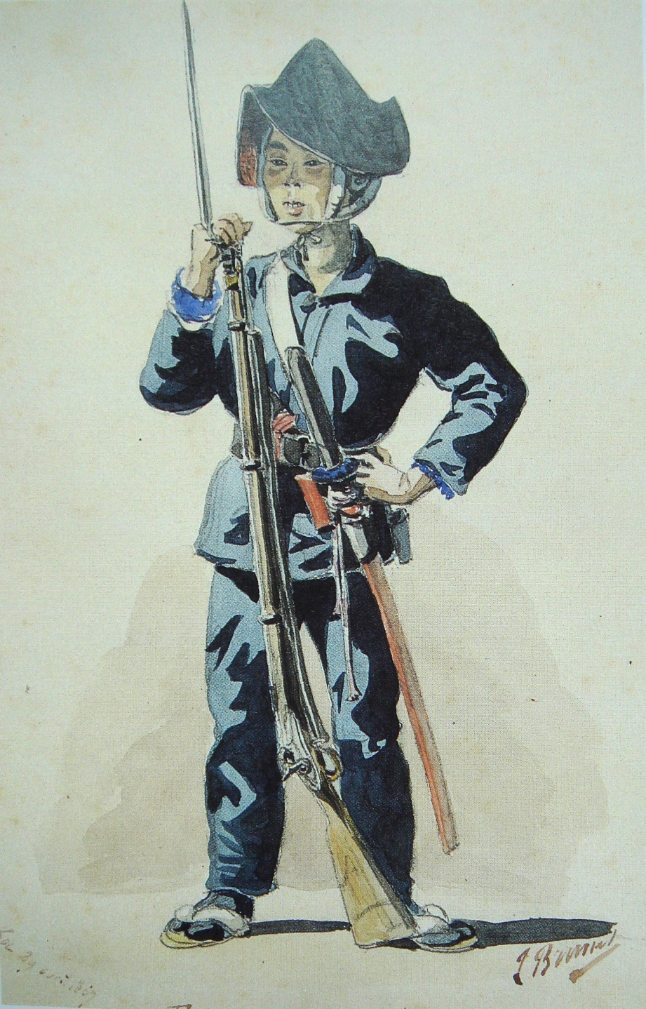 Japanese Bakufu Infantry, April 29, 1867. The soldier is named "Ootsuka Tsukataroo".